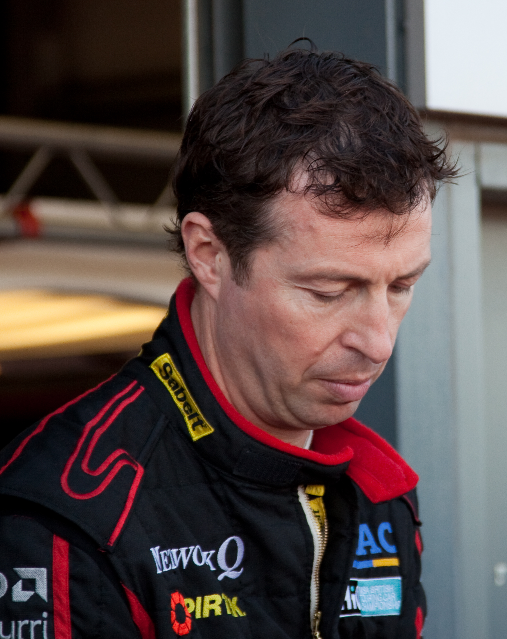 Matt Neal at Donington Park